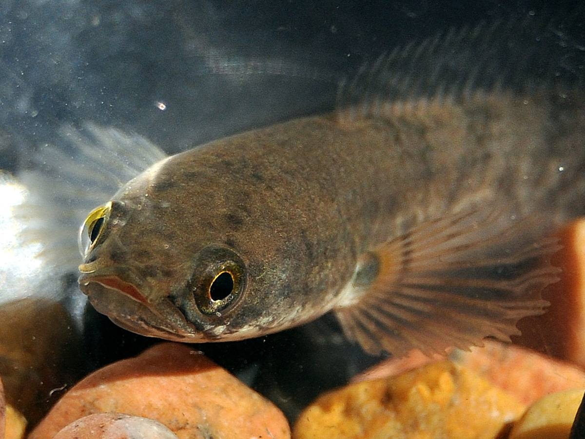 Dwarf snakehead, Channa gachua, 60mm SL. From Karawang, West Java. Head close up. Dorsal fin 34, anal 22, pectoral 13, pelvic present.